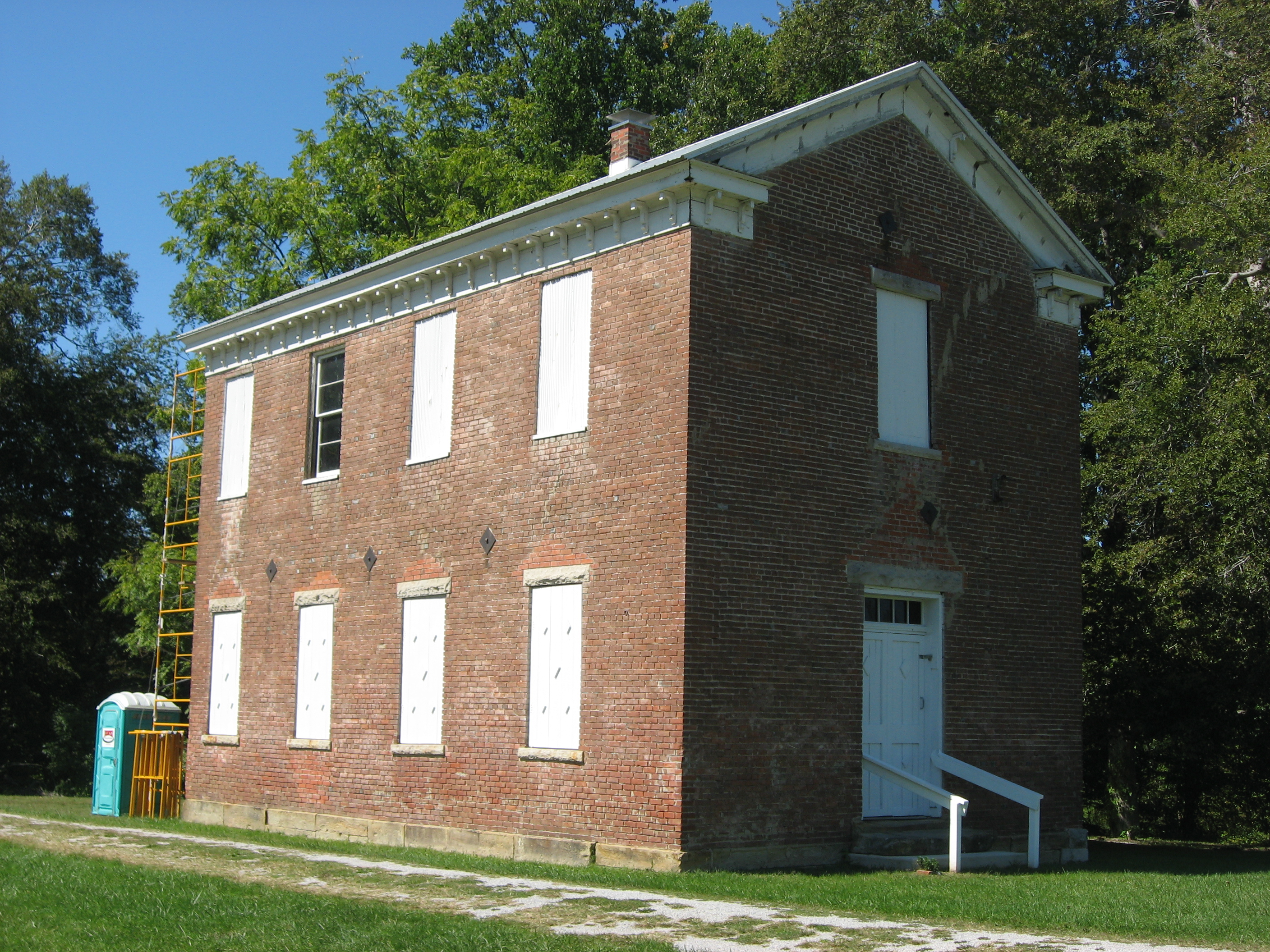 Southern and eastern sides of the Carr High School, located at 10059 W. 250S west of Medora in Carr Township, Jackson County, Indiana, United States. Built in 1857, it is listed on the National Register of Historic Places.